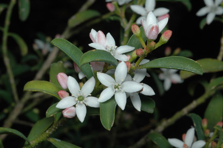 Philotheca myoporoides subsp. acuta in the Australian National Botanic Gardens, A.C.T.